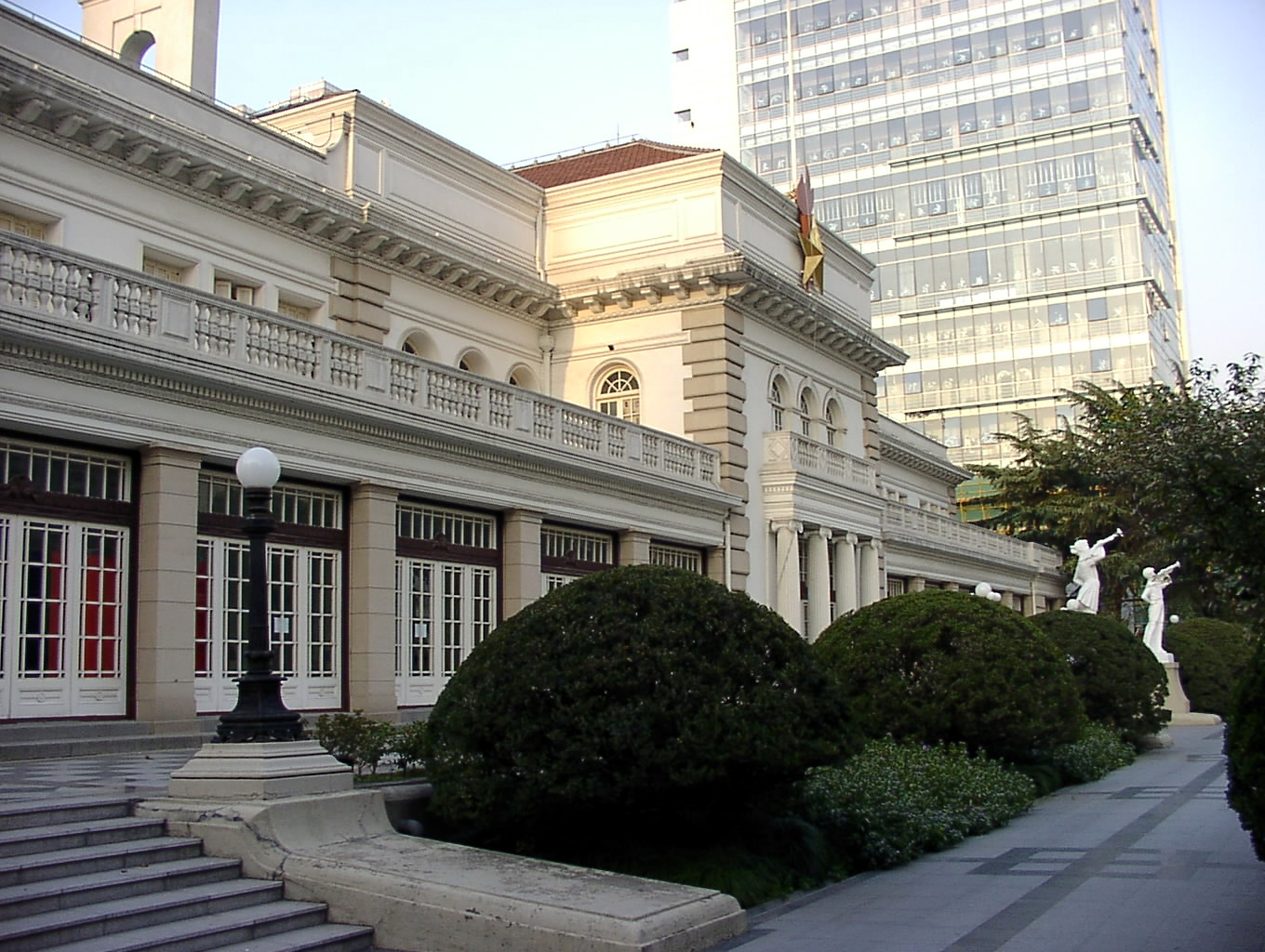 "Marble Hall", the former mansion of the Kadoorie family in Shanghai and now houses the "Shanghai Children's Palace."